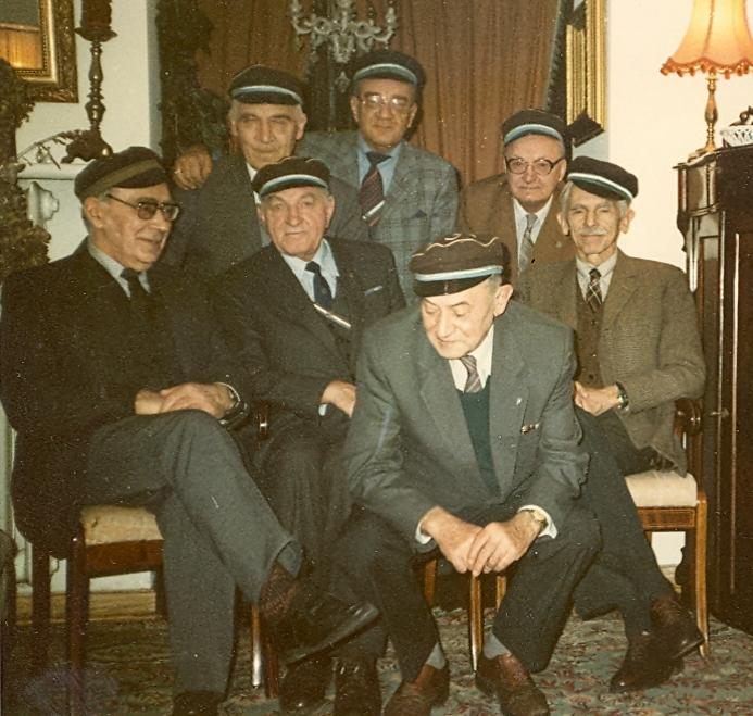 Philisters of Corporation Sarmatia - 1988